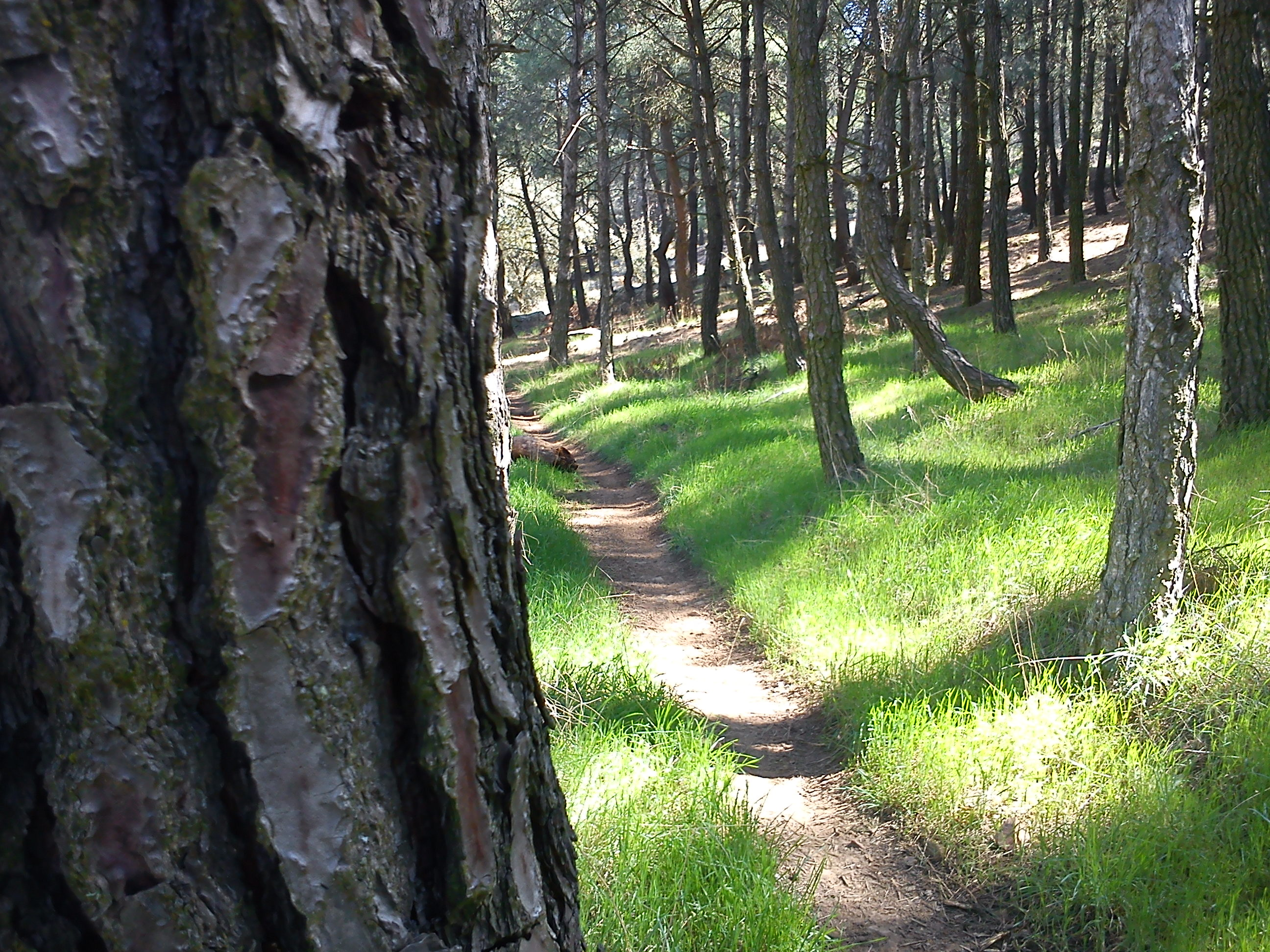 Los Pinos